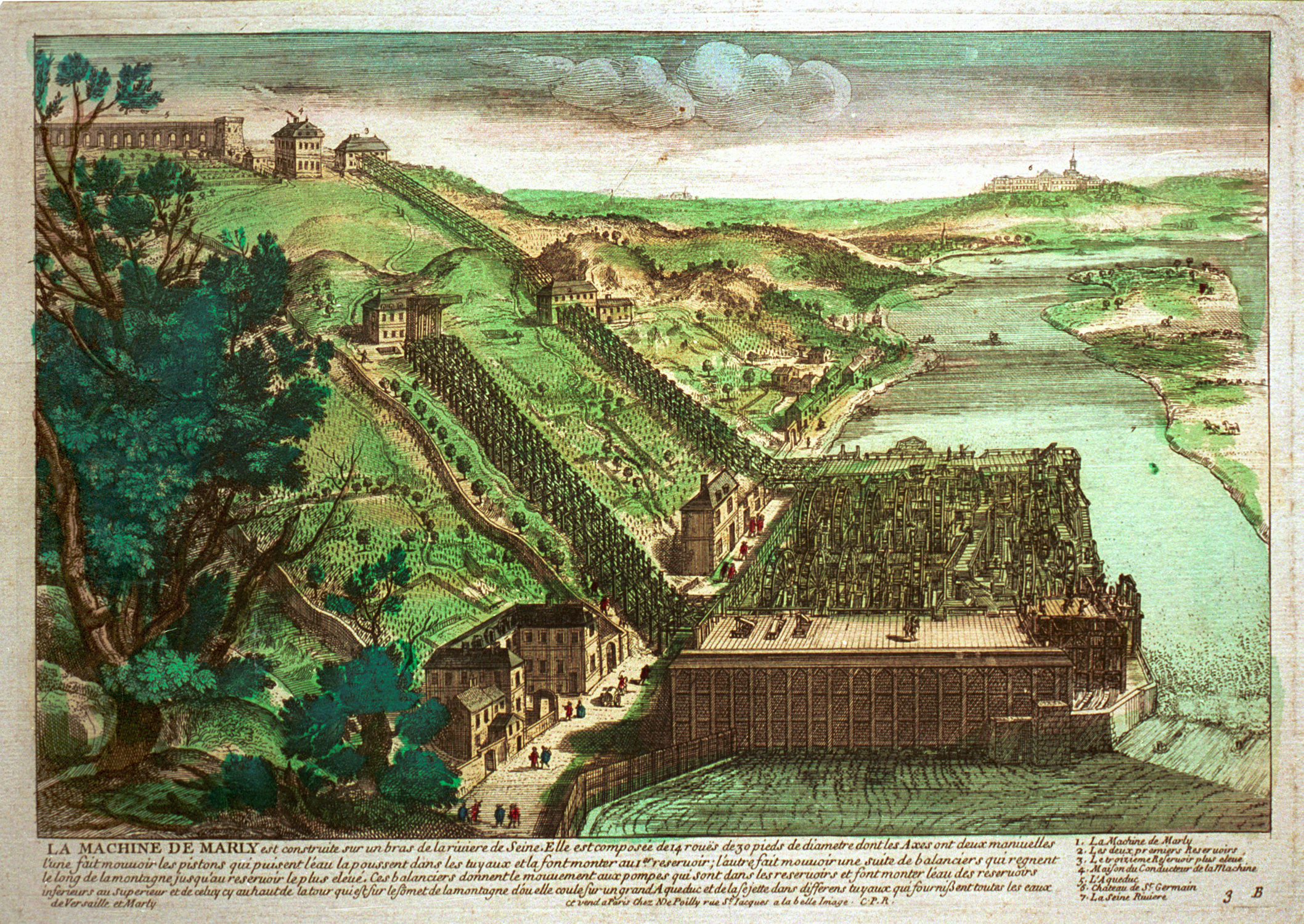 Machine de Marly Bird's Eye View